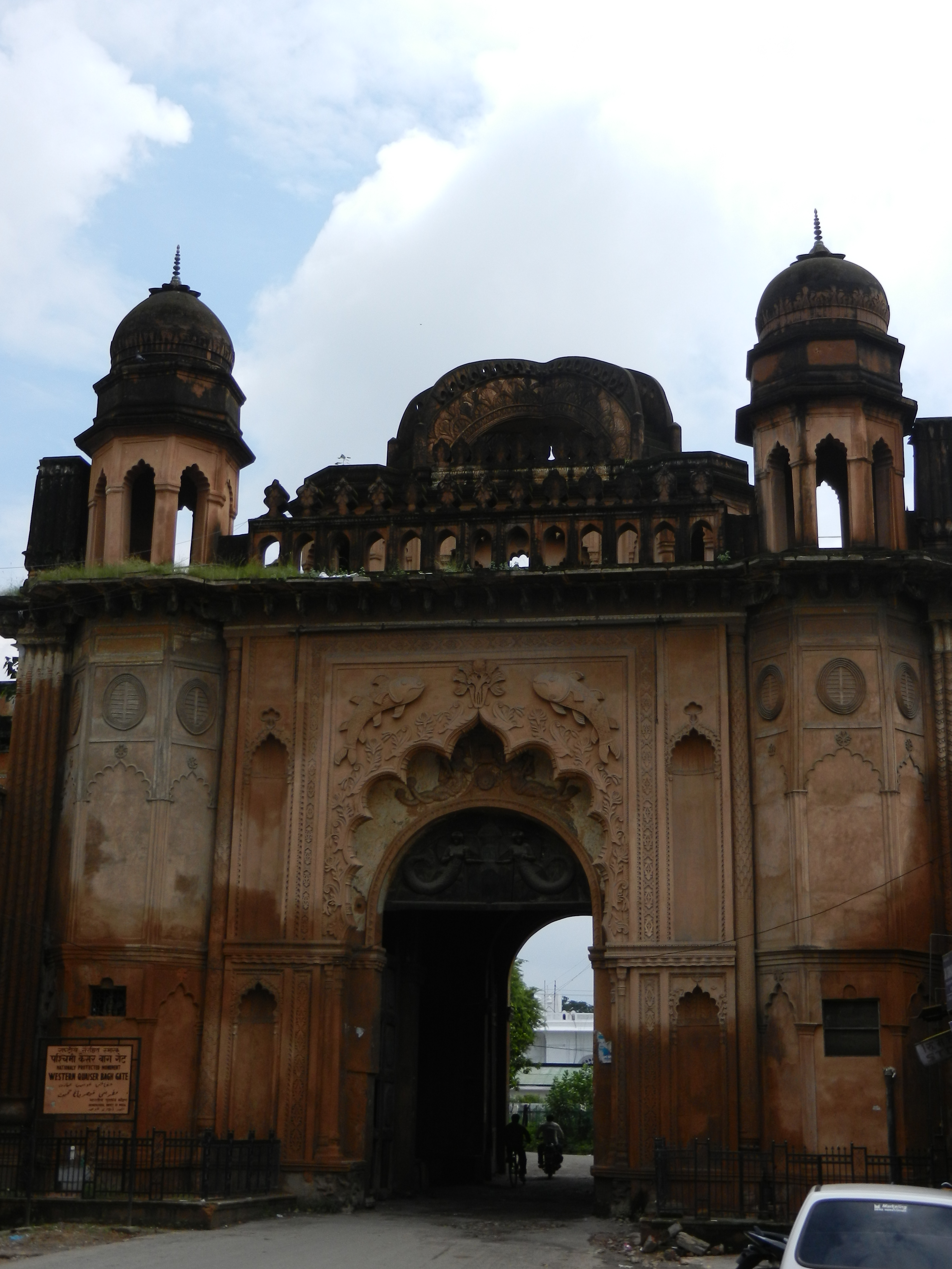 Kaiser Bagh Gates